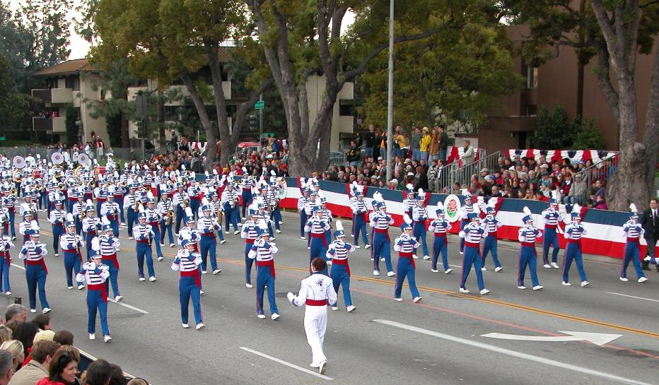 Photo of Londonderry High School's Lancer Marching Band and Colorguard on Colorado Boulevard during 2004 Tournament of Roses Parade in Pasadena, California